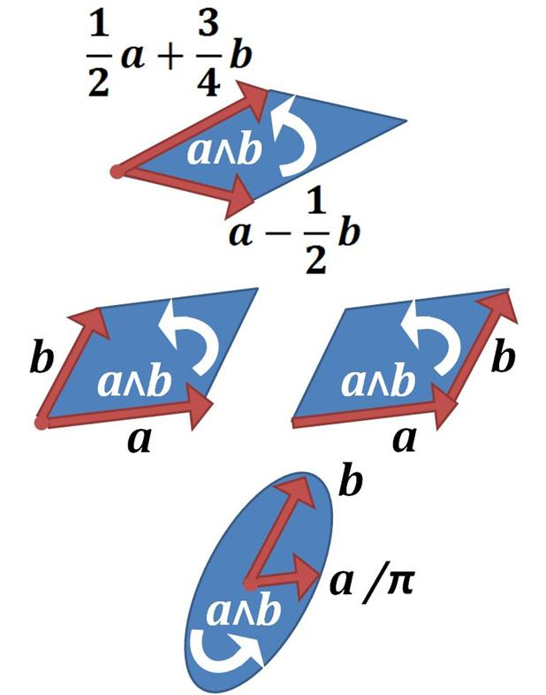 Different plane segments corresponding to the same wedge product of two vectors a & b